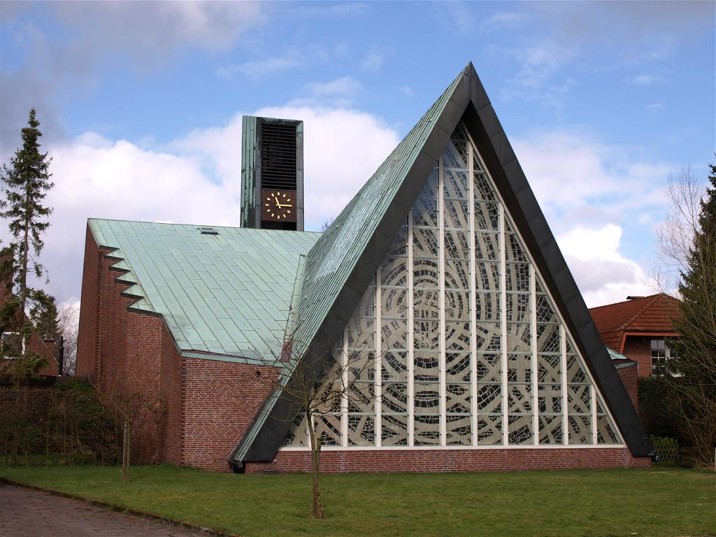 Elmshorn, Slesvic-Holstein, (Germany),Luther-Church, Foto 2007